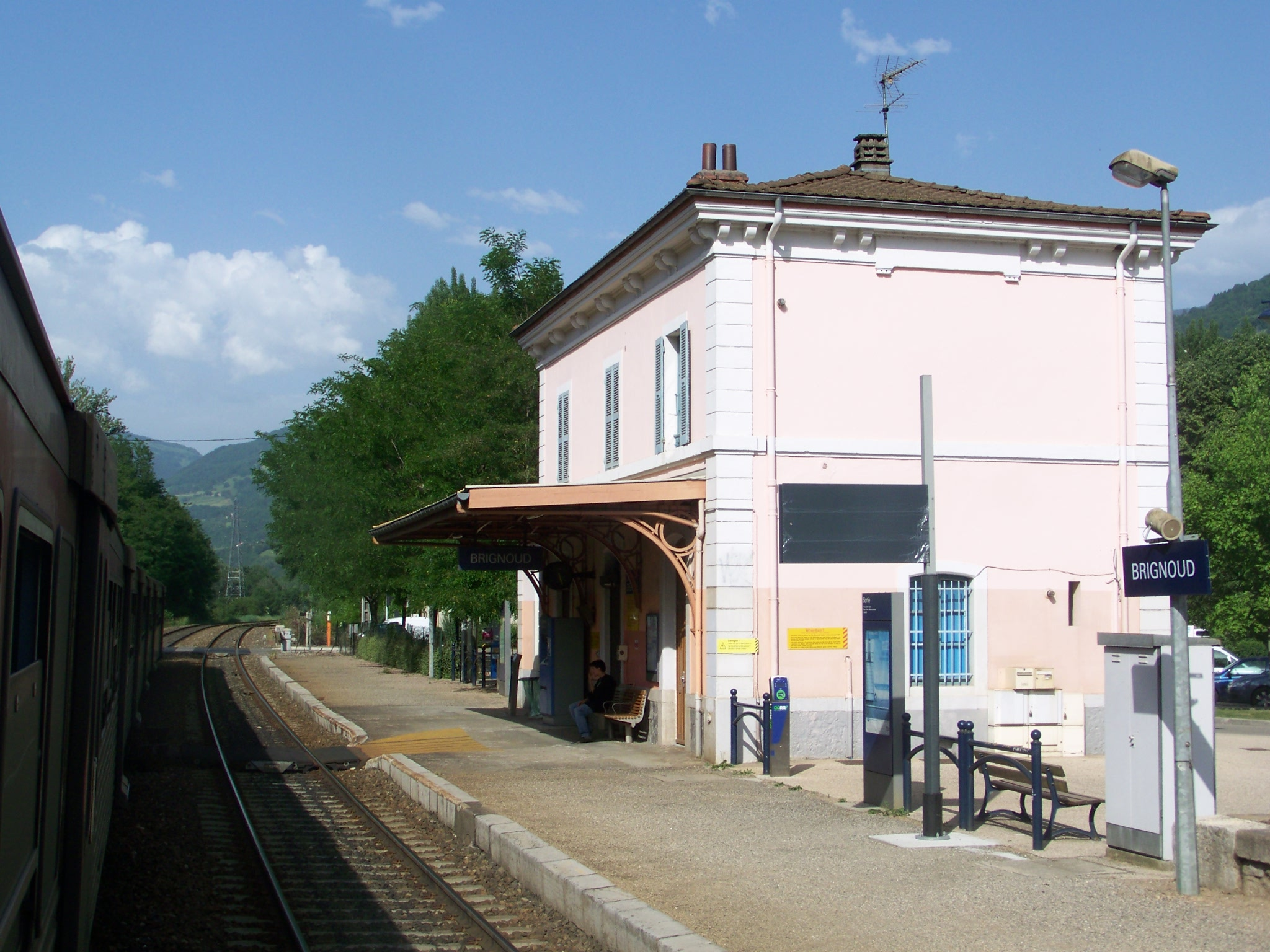 View on the tracks and platforms of the little station of Brignoud between Grenoble and Chambéry, in Isère, France.